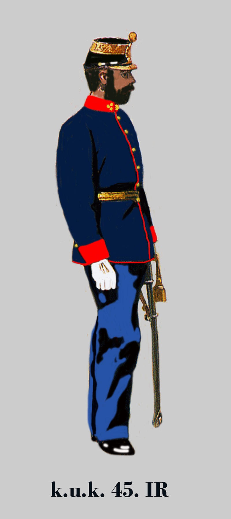 Captain of the Austria-Hungarian (k.u.k.). 45th geman Infantry Regiment in Parade dress 1914